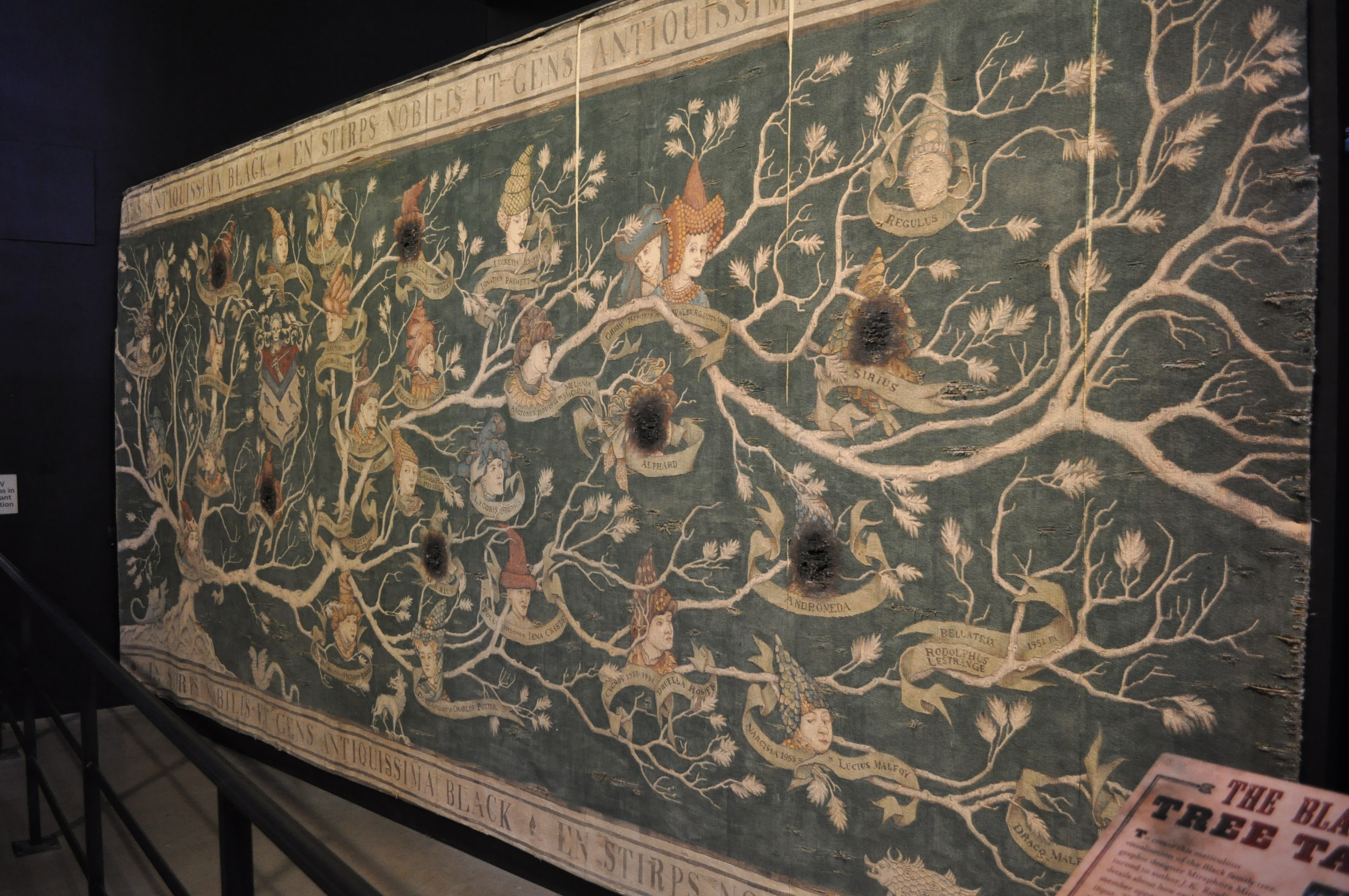 This is the prop of the Black family tapestry, used in the Harry Potter films.